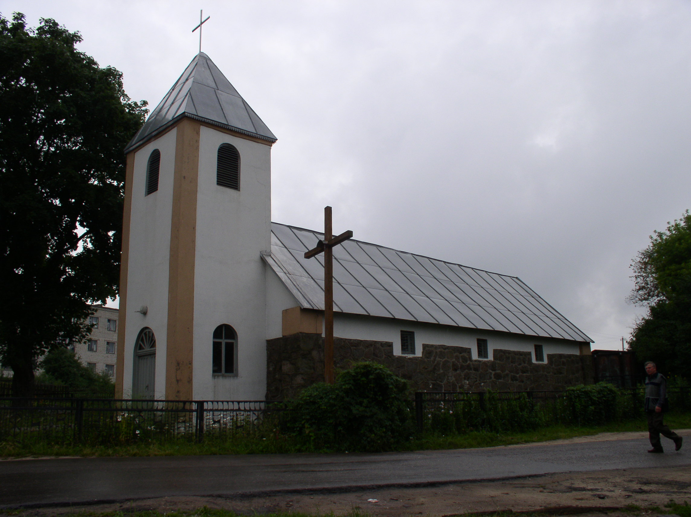 Church of Saint Joseph. Haradzeya, Belarus.